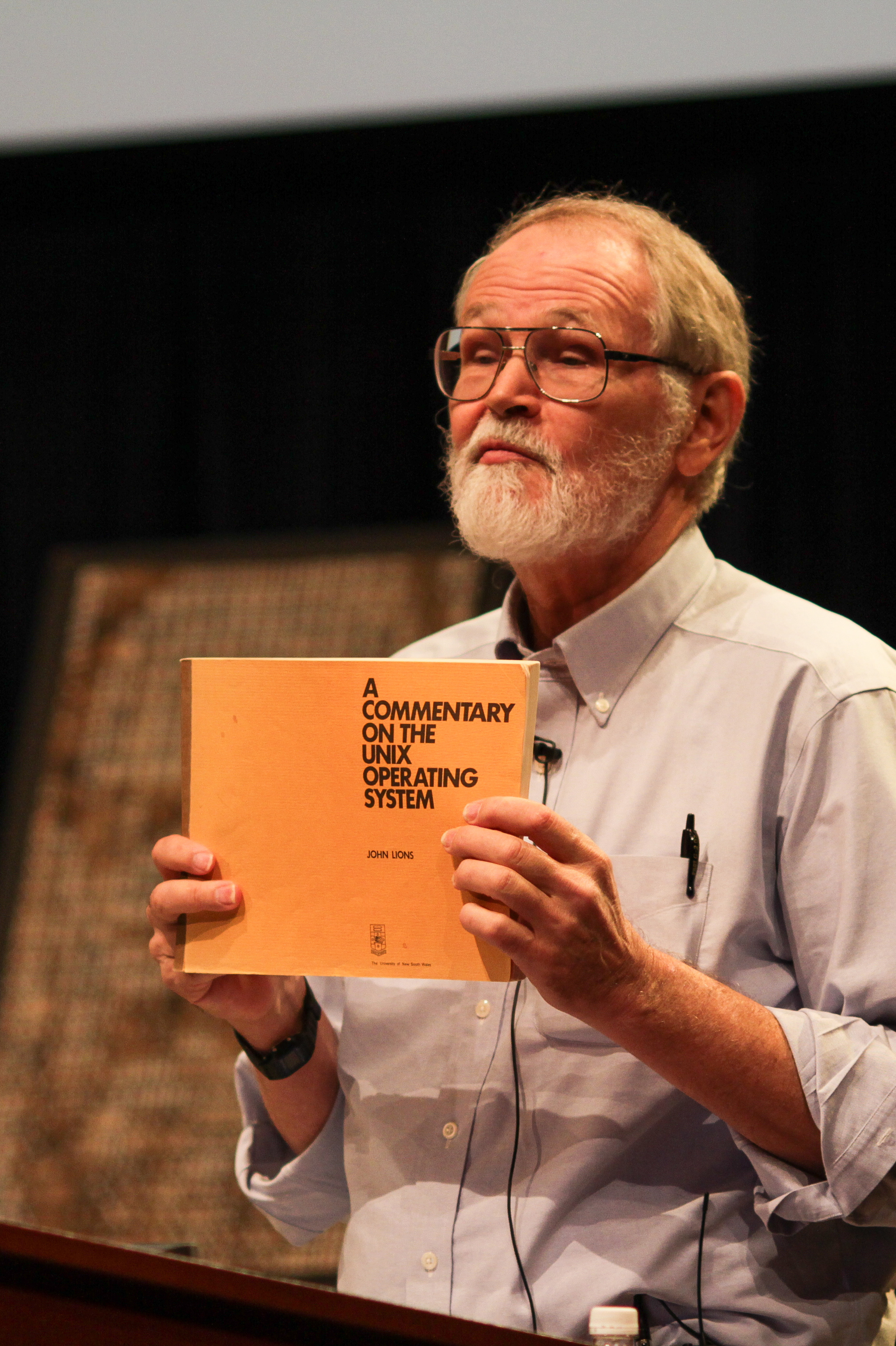 Brian Kernighan holds "A Commentary on the Unix Operating System" by John Lions during a tribute to Dennis Ritchie at Bell Labs. Video